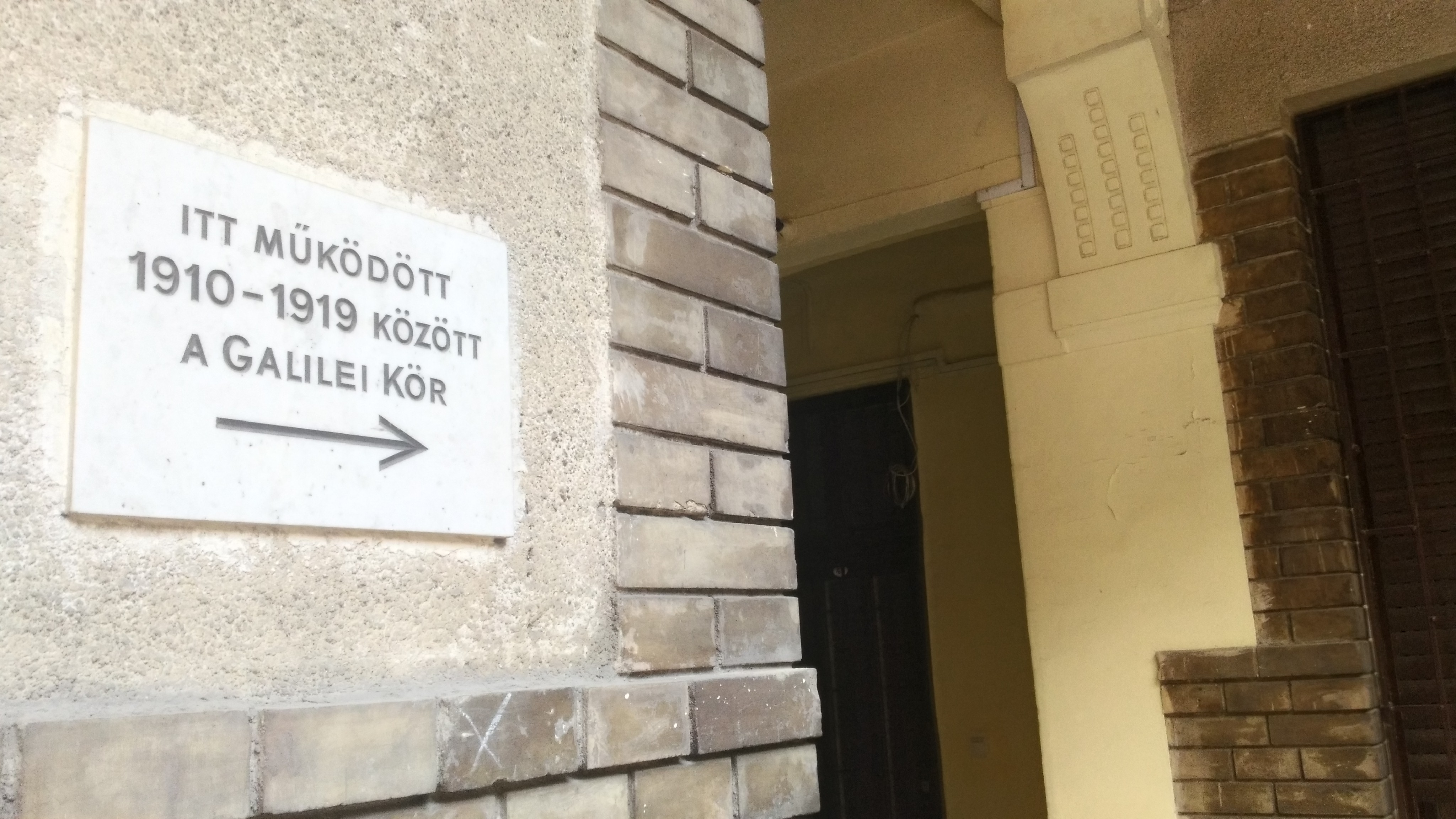 plaque commemorating the former 'Galilei-circle', a free-thinking student club of the 1910s of Budapest, Hungary